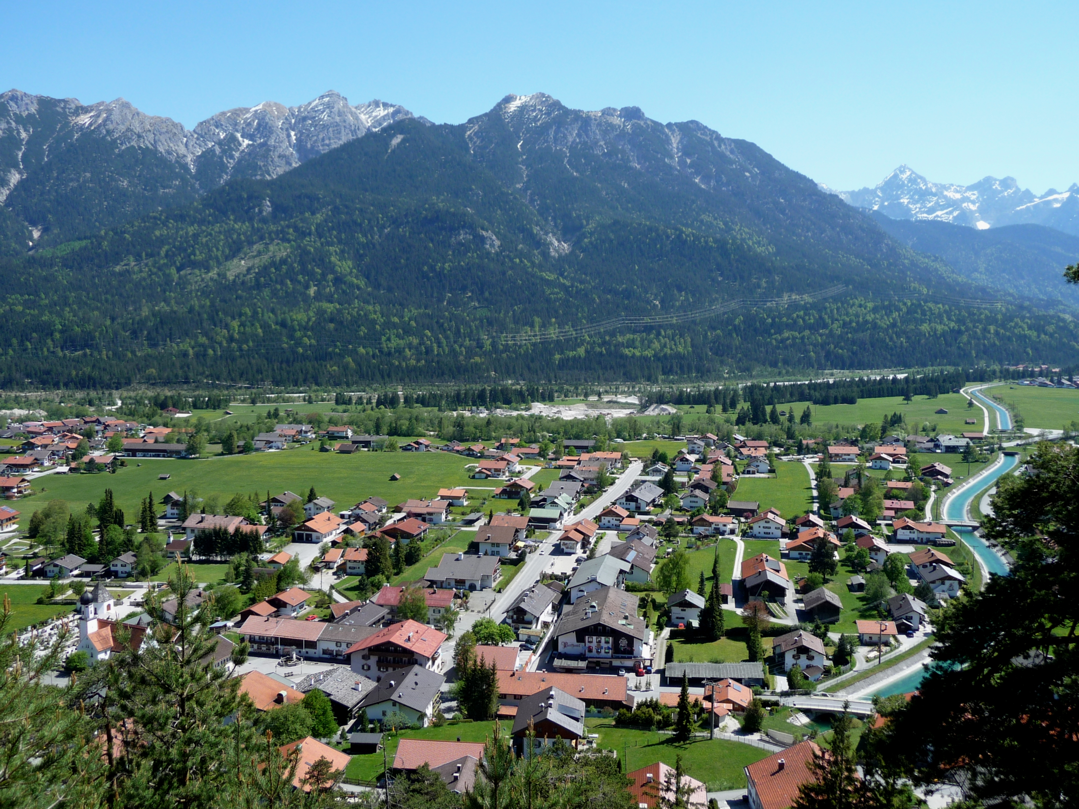 View from "Krepelschrofen" mountain to "Schöttlkarspitze", Wallgau, Germany